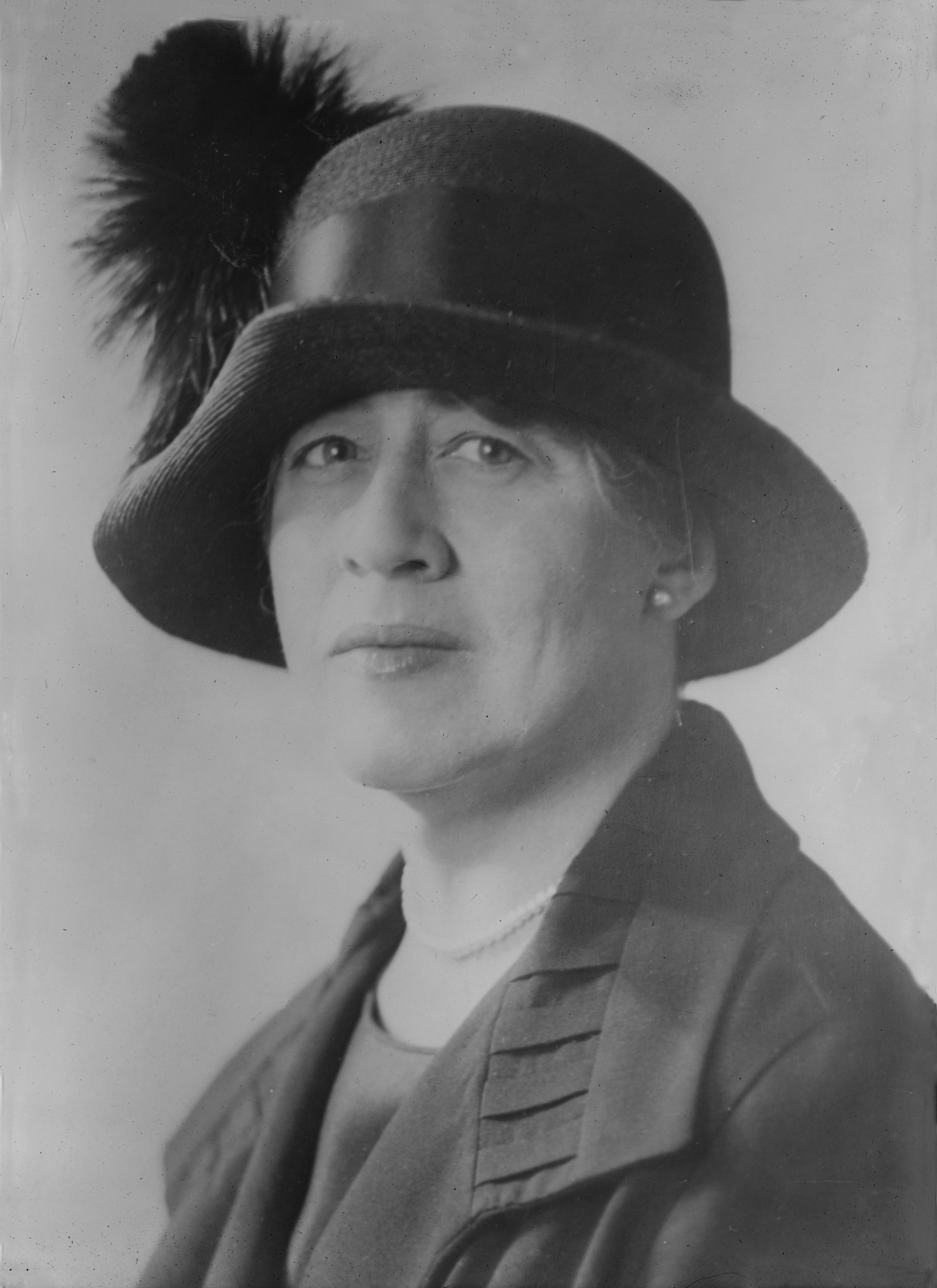 Ruth Bryan Owen, America's first woman envoy